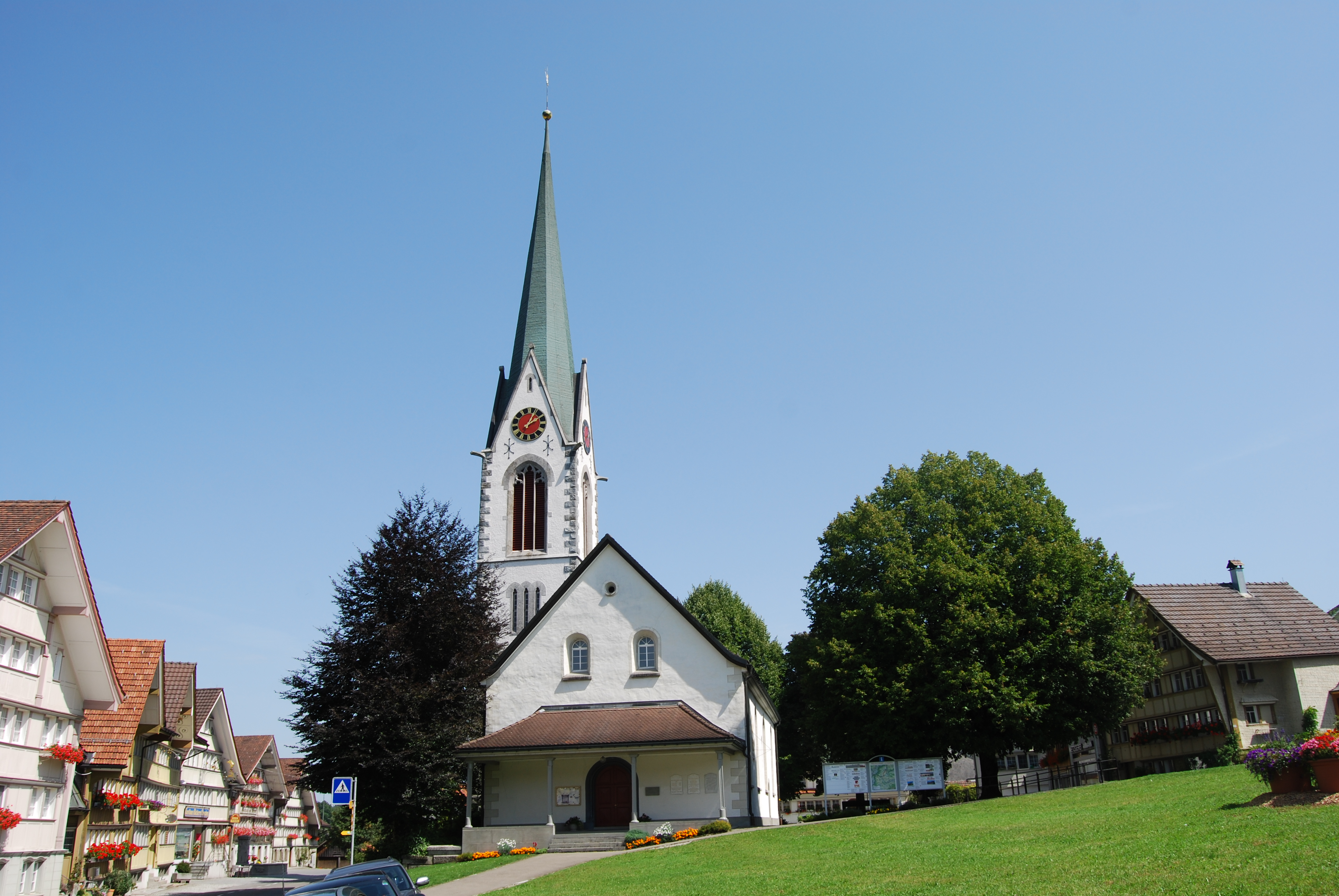 Church of Hundwil, canton of Appenzell Ausserrhoden, SwitzerlandEsperanto: Preĝejo de Hundwil, Kantono Apencelo Ekstera, Svislando